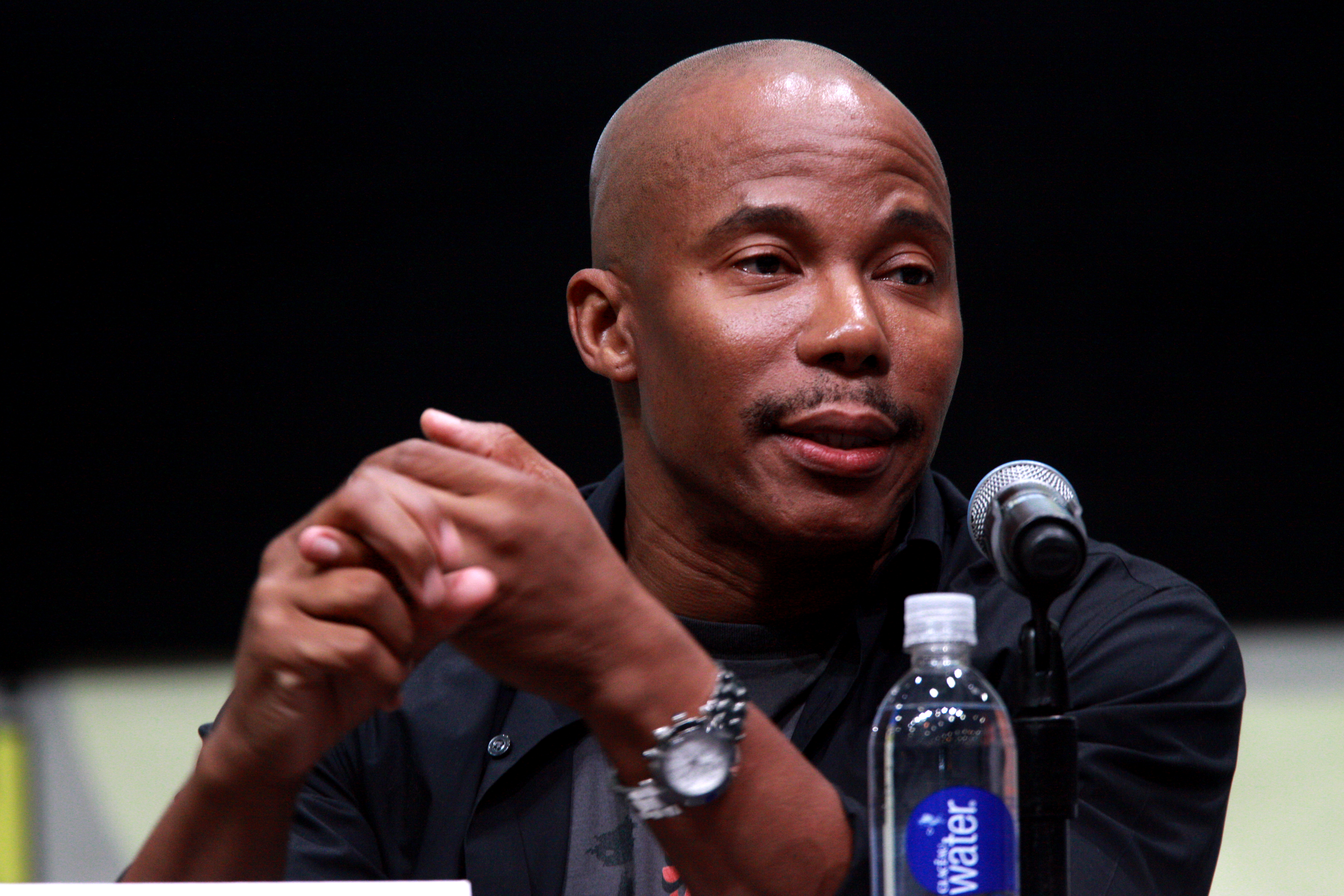 Erik King speaking at the 2013 San Diego Comic Con International, for "Dexter", at the San Diego Convention Center in San Diego, California.